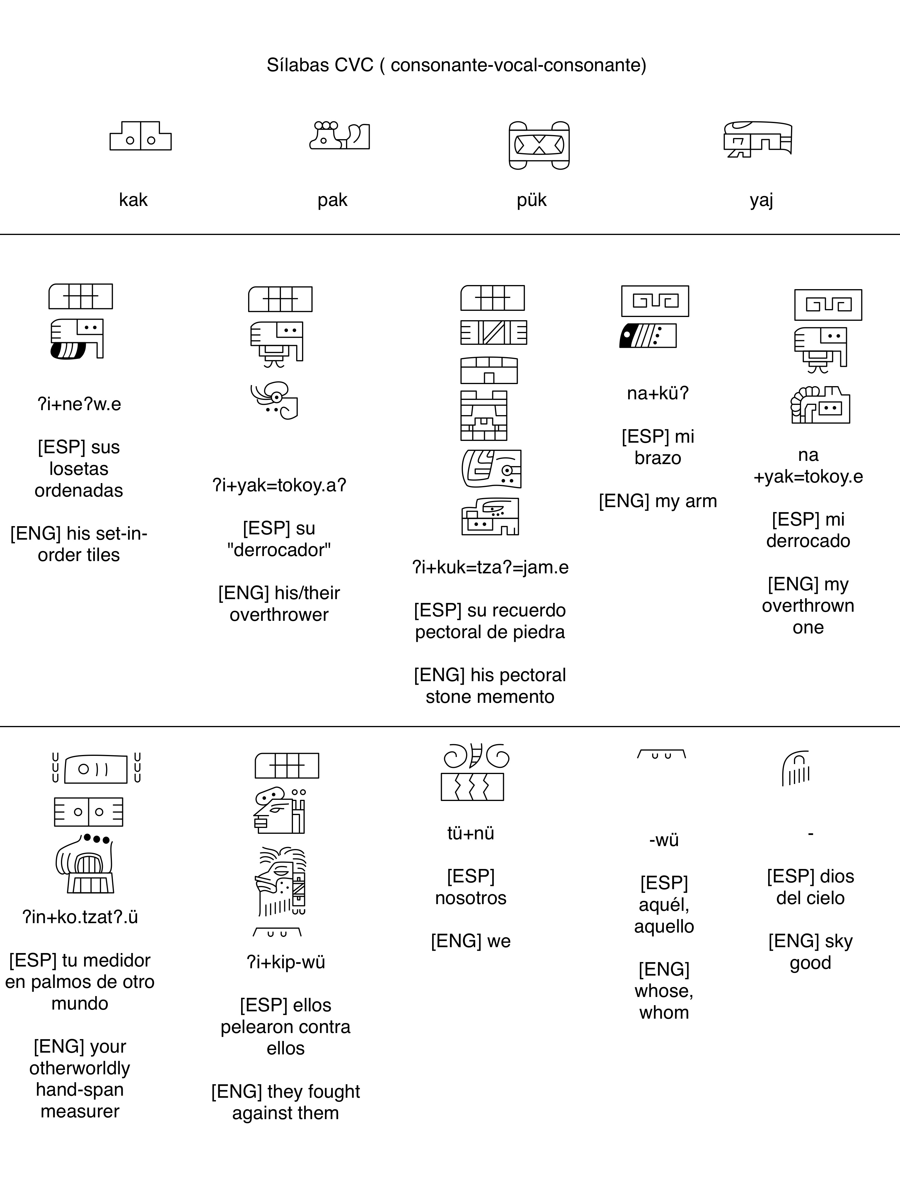 Epi-olmec consonant-vowel-consonant syllabary and some translations to spanish and english in International Phonetic Alphabet according to Kaufman and Justeson 1996